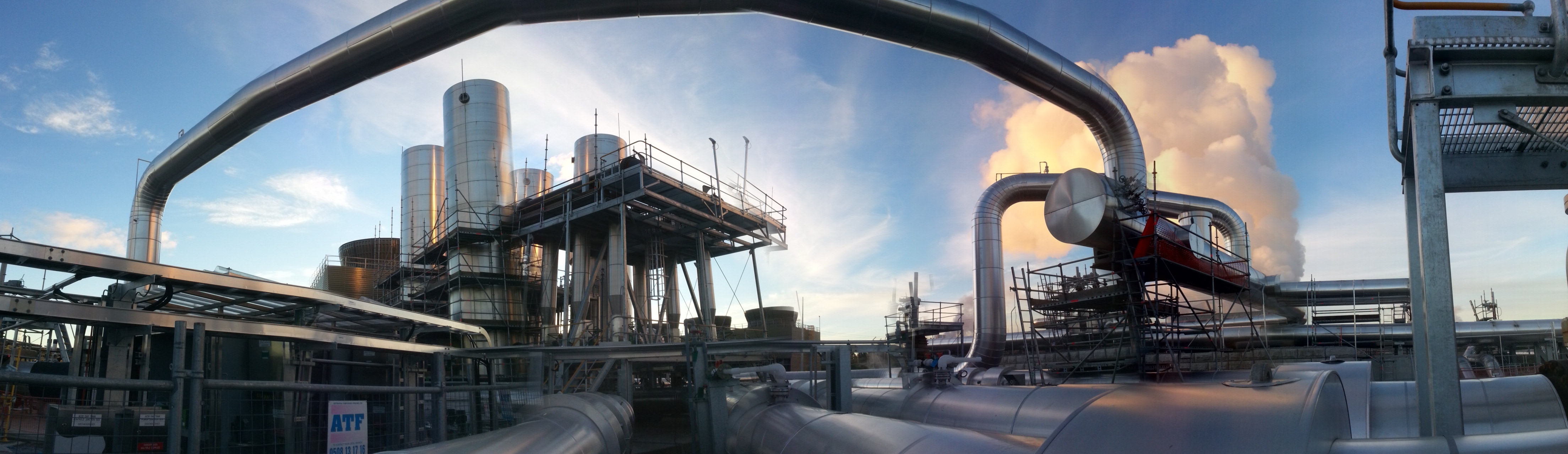 Taken near the back of Te Mihi Powerstation in Taupo NZ. Shows steam plume from steam field rock muffler, Main steam line from Te Mihi steam field to plant and separator stacks